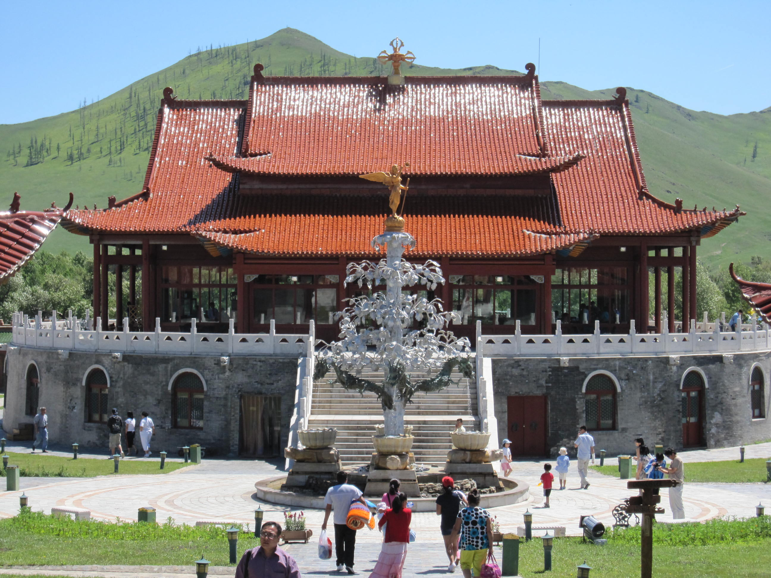 Hotel Mongolia in Ulaanbaatar